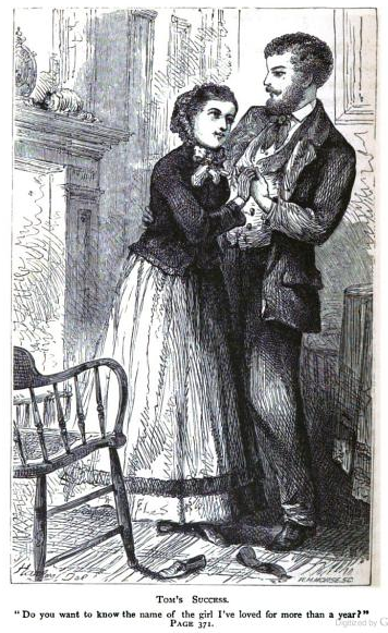 Illustration from: An Old-Fashioned Girl. By L.M. Alcott. Boston: Roberts Bros, 1870